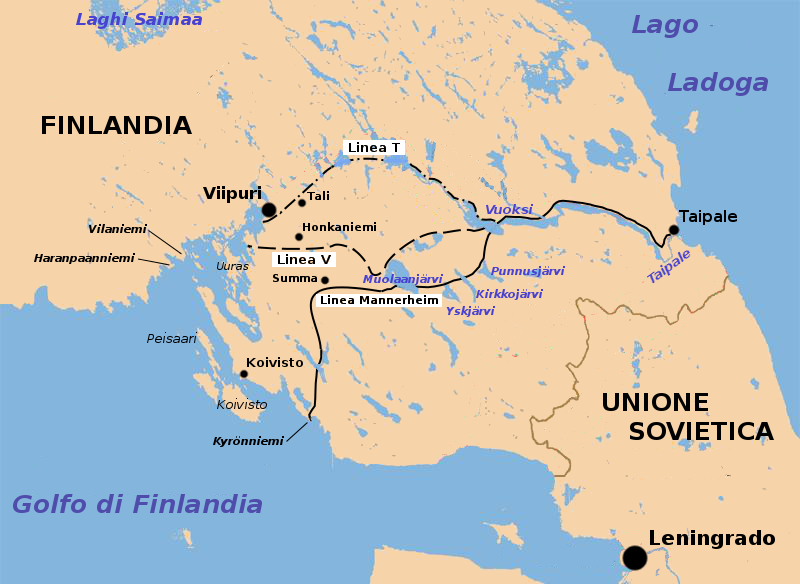 Finnish defensive lines in Winter War